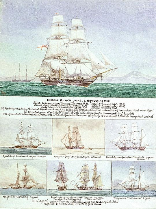 H.M. Brig Black Joke, tender to HMS Sybille and prizes, Spanish brig Providentia, Brazilian brig Vengador Buenos Ayrean privateer Presidente brigantine El Hassey Spanish brig El Almirante and brigantine Marianna, by Irwin Bevan, in the possession of the National Maritime Museum. Sourced from [1] on 9 February 2008.